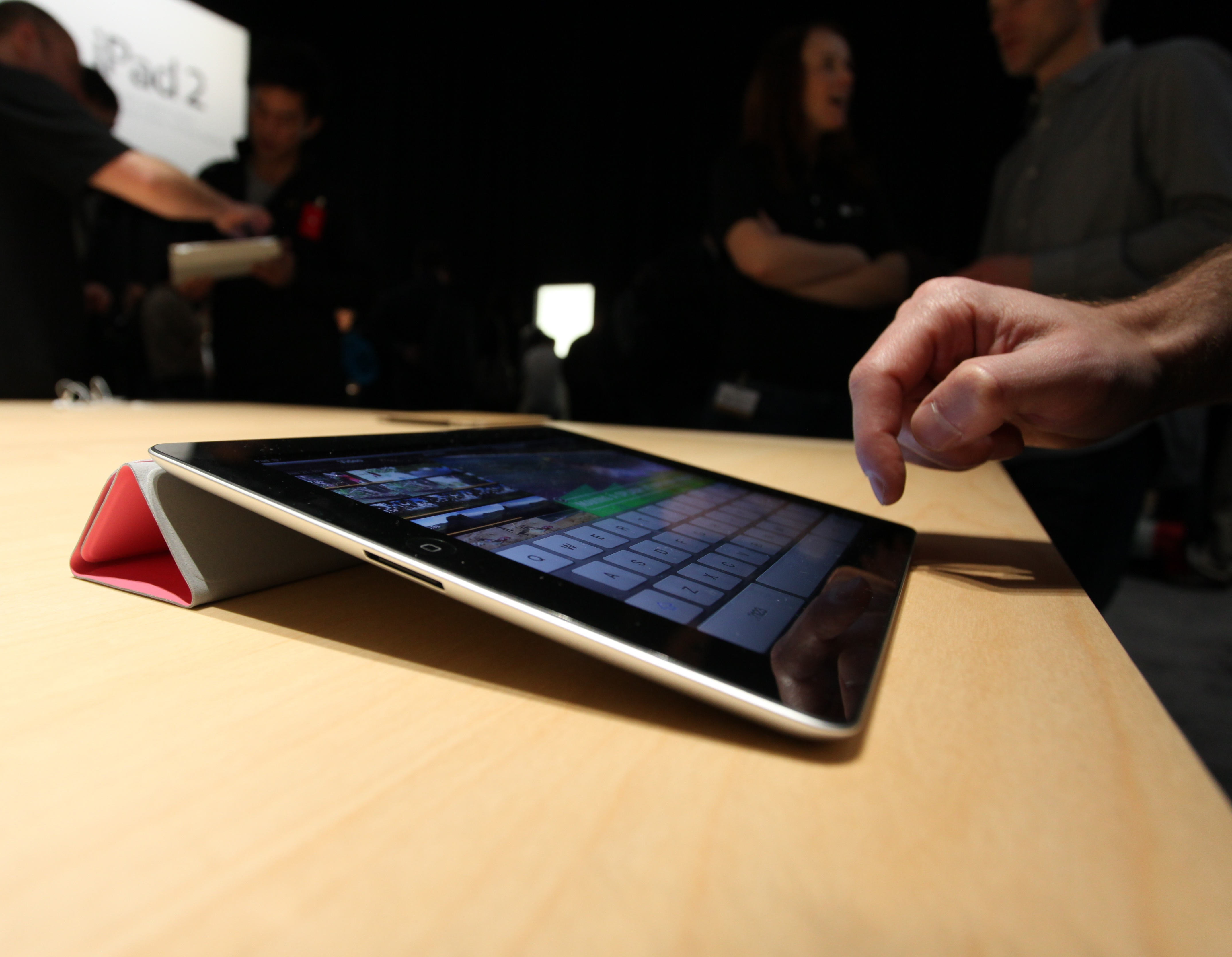 iPad 2 with Smart Cover running iMovie.